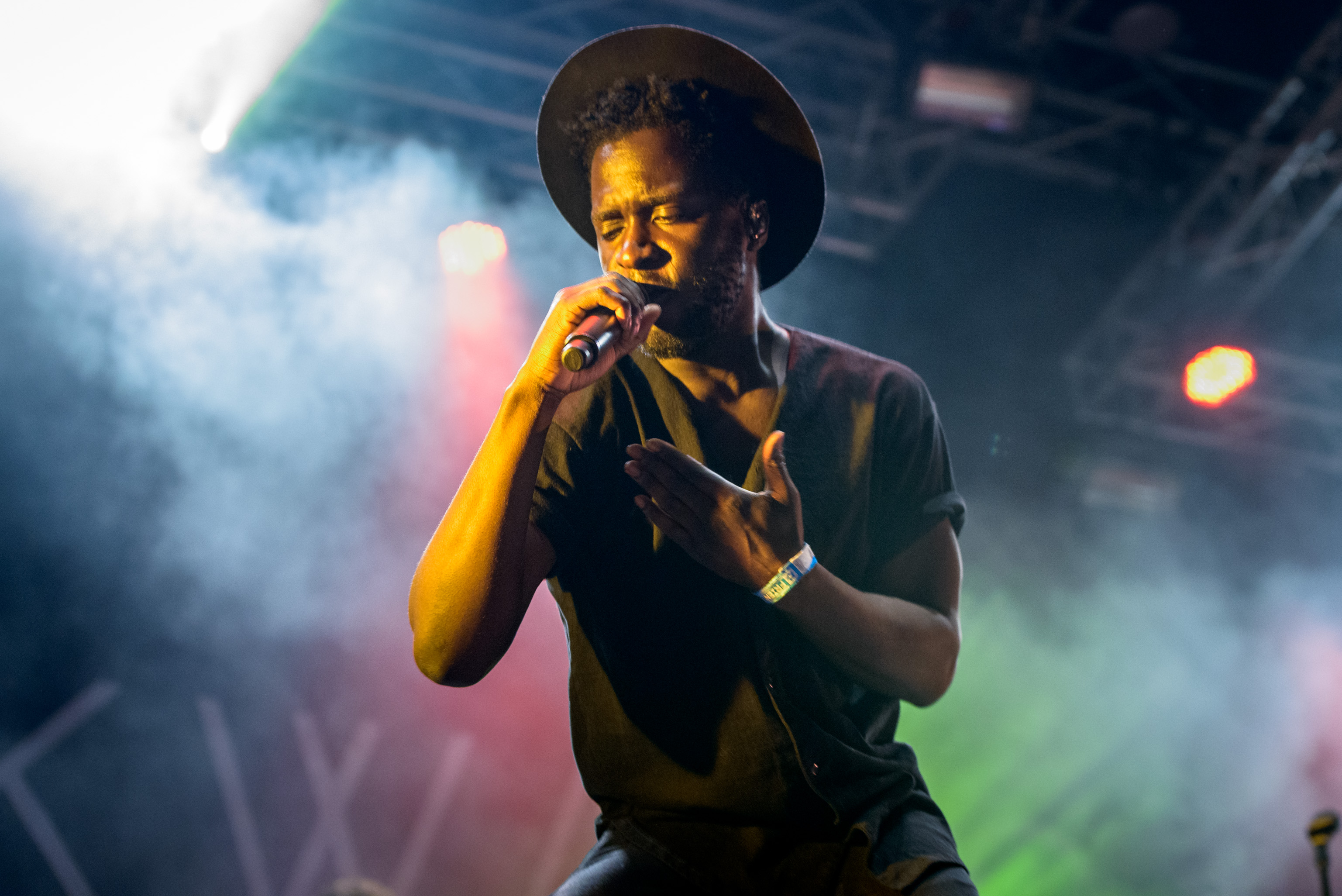 Kwabs Live @ Utopia Island 2015